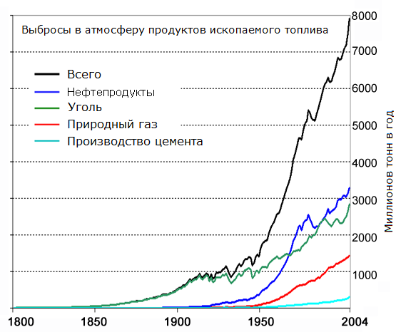 Global annual fossil fuel carbon dioxide emissions through year 2004, in million metric tons of carbon, as reported by the Carbon Dioxide Information Analysis Center [1].